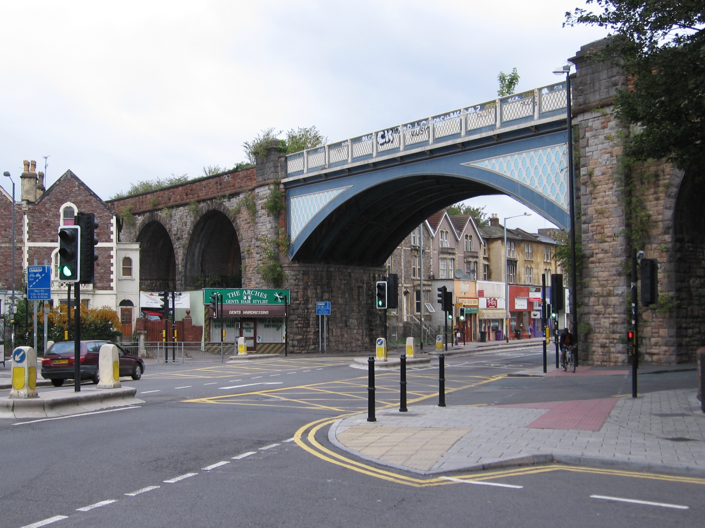 Railway bridge in Montpelier, Bristol, UK. The Severn Beach Line passes over the bridge, which is commonly known as The Arches. Of interest is that the bridge is the confluence of three wards - the left end of the bridge is in Cotham, the right end in Redland, and the photo taken in Ashley.